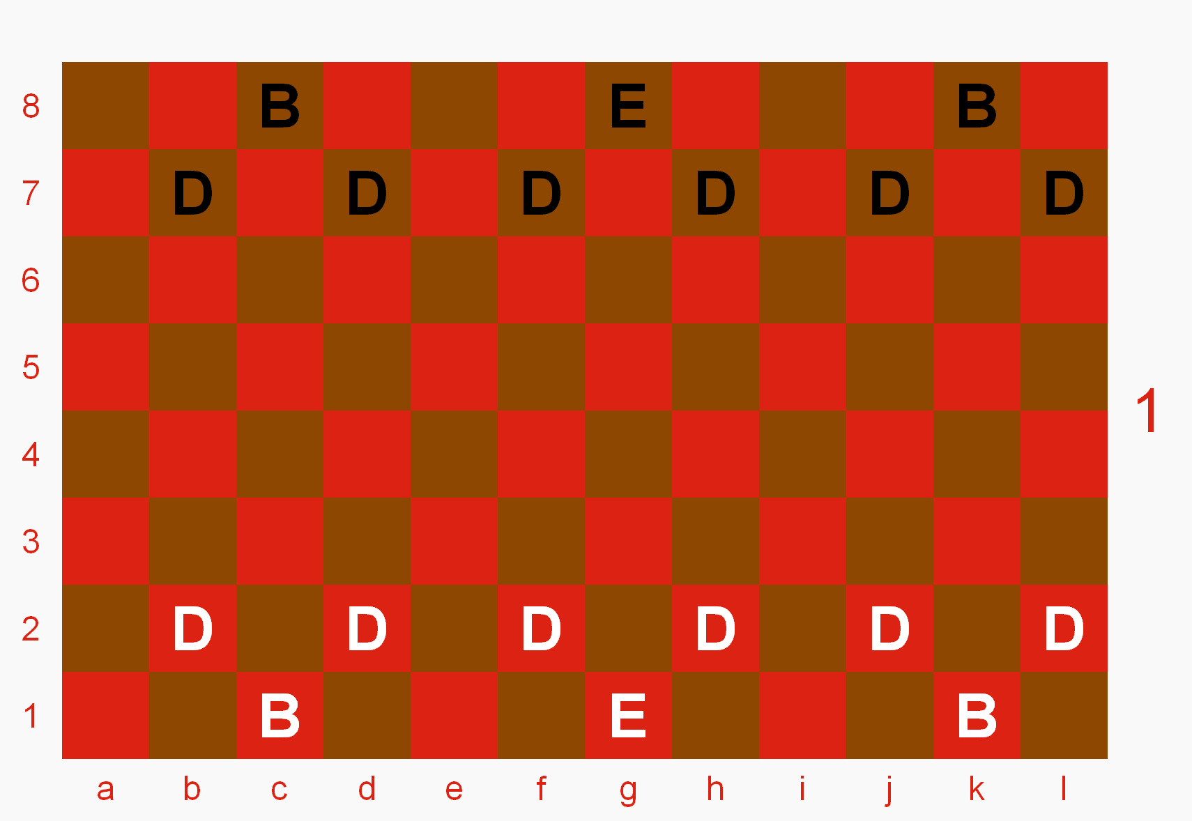 depicts Dragonchess lower board starting position